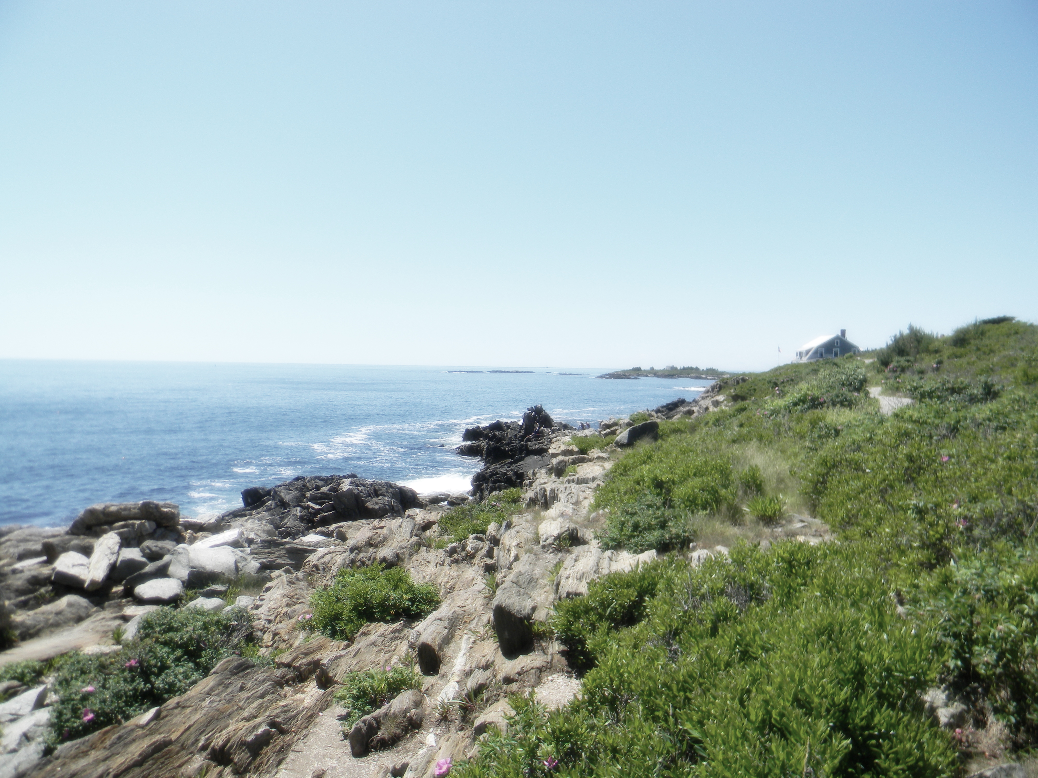 View of Bailey Island near The Giant Staircase